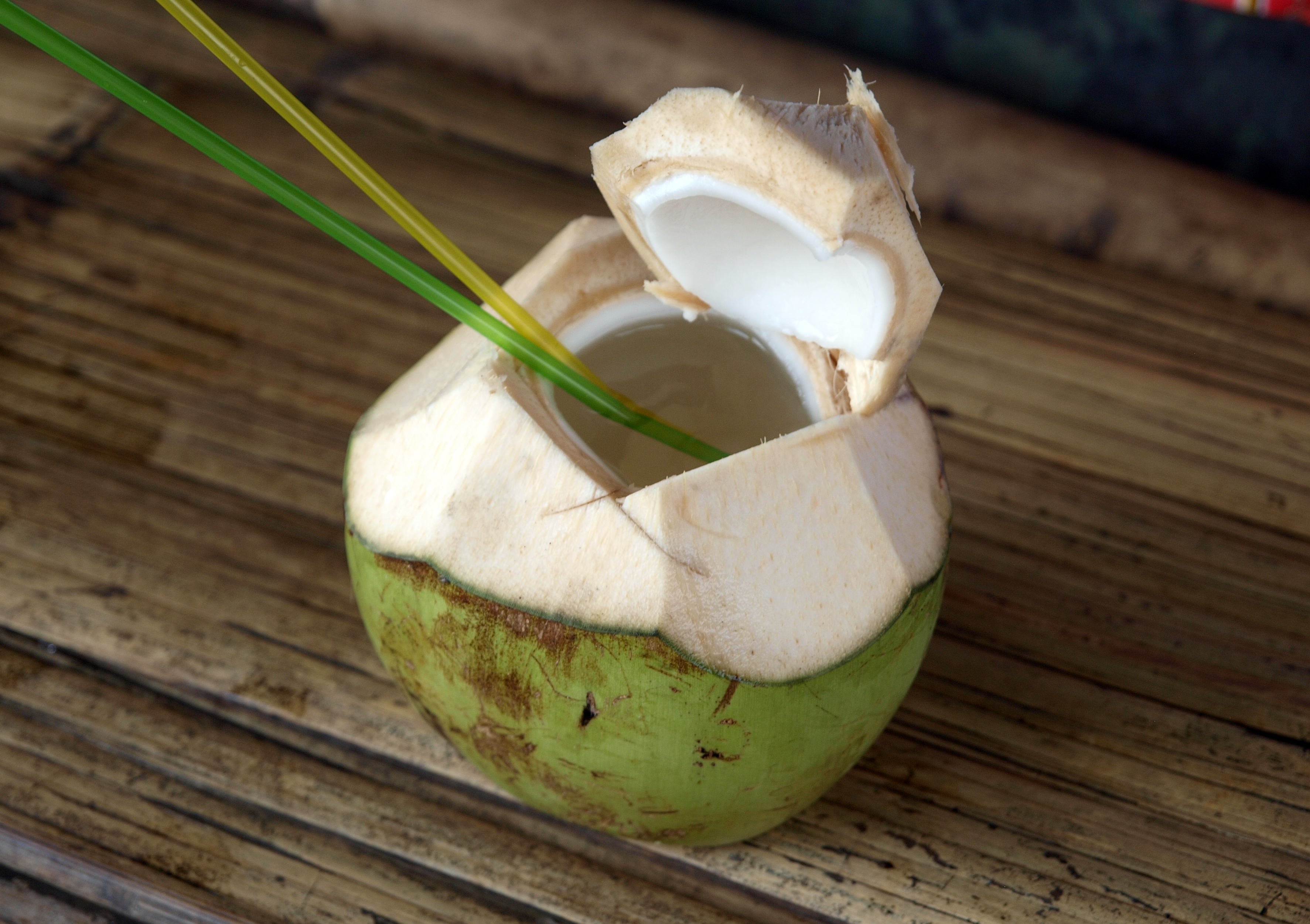 Coconut water drink